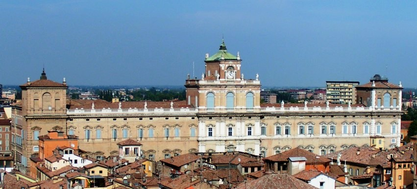 The baroque Ducal Palace in Modena, site of a major Italian military academy. Photo by Bob Tubbs taken from the tower beside the cathedral, 25 September 2005. Palazzo ducale di Modena, attualmente occupato dall'Accademia Militare di Modena. Foto di Bob Tubbs presa dalla Ghirlandina, il 25 settembre 2005